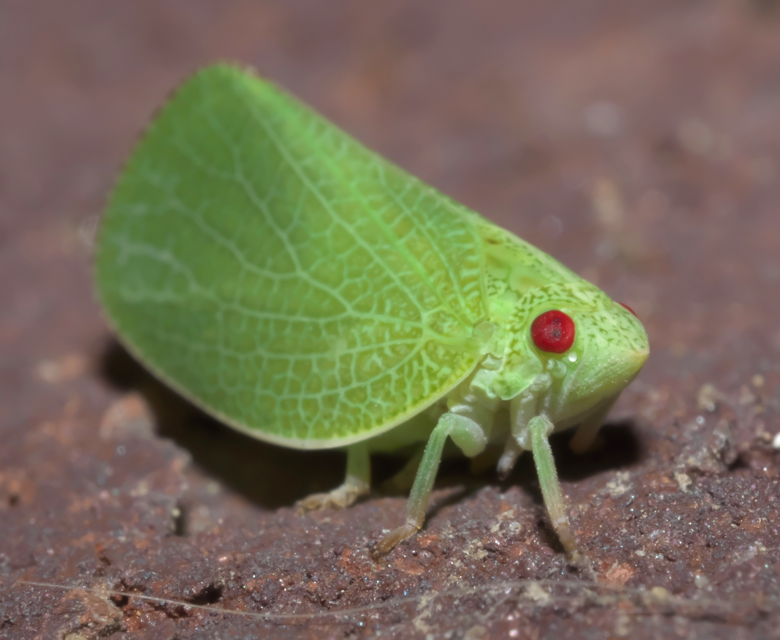 Acanalonia conica, Family: Acanaloniid Planthoppers, ID Confidence: 90